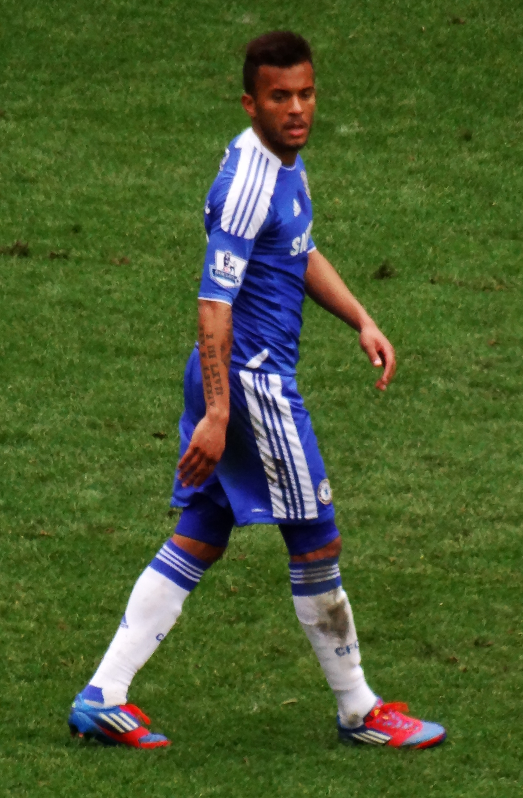 Ryan Bertrand during FA Cup match against Leicester City FC